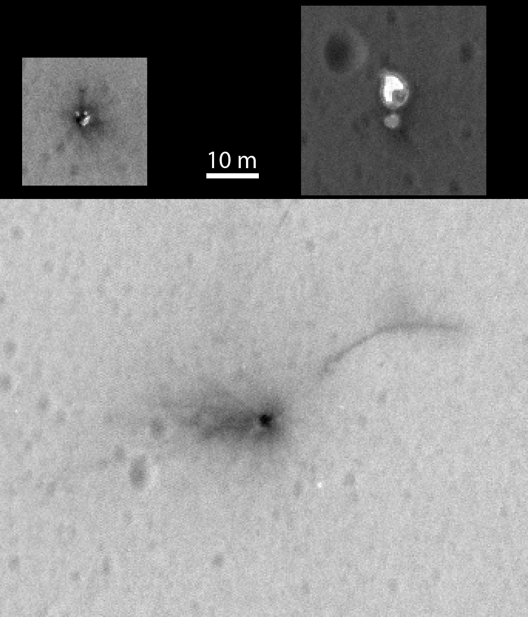 montage of images taken by the HiRISE camera of NASA's MRO orbiter, which shows the impact sites of the components of Schiaparelli lander. bottom: the impact crater of Schiaparelli itself; upper right: the backshell and parachute; upper left: the heat shield.